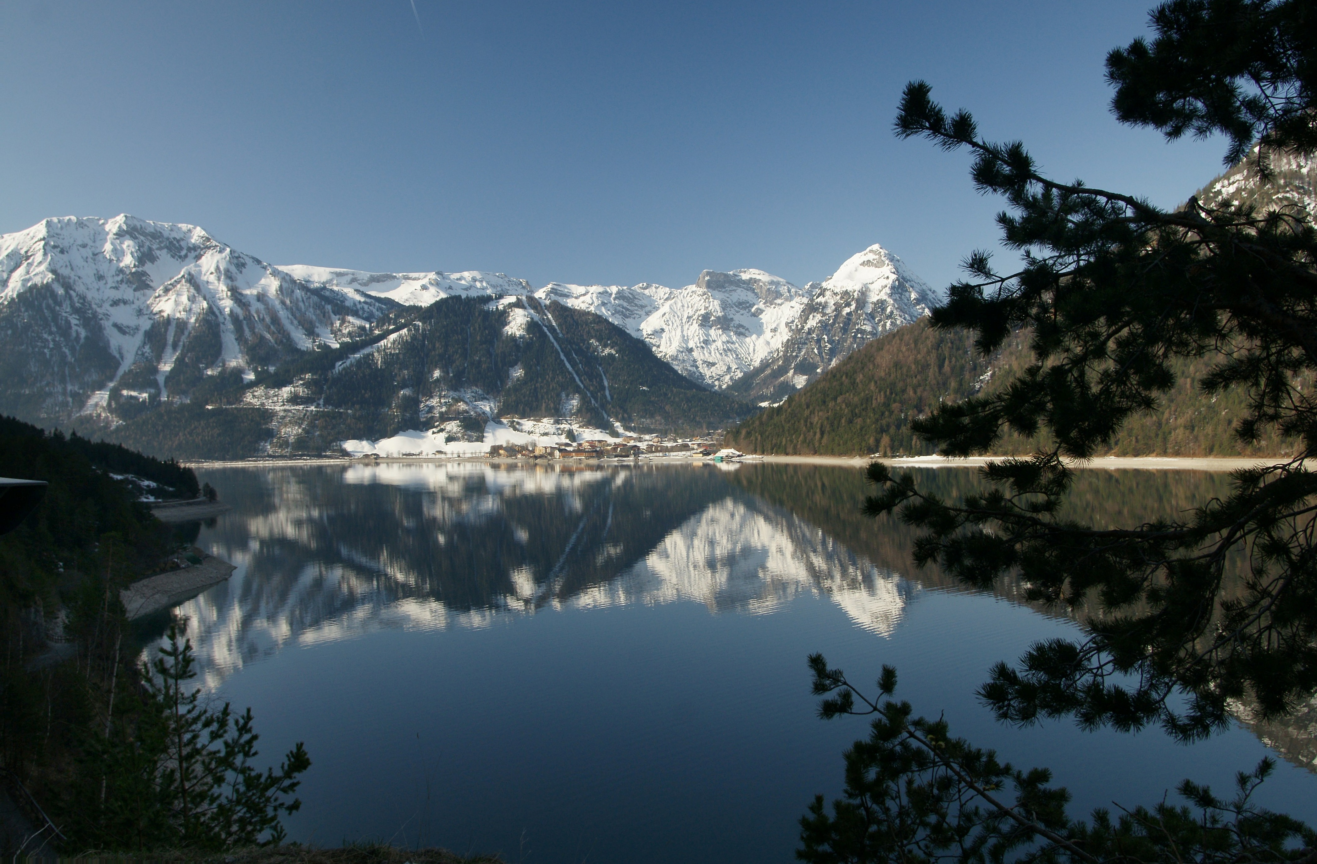 Pertisau is a district of the municipality Eben on Achensee in the Austrian state of Tyrol. Together with Maurach constitutes the center of tourism on the Achensee. The mountains in the background belong to the Karwendel Mountains, to the left of the Bärenkopf 1.991m in the middle of the forest and cut through a mountain hill is the Zwölferkopf 1.480m (Karwendel) and is right outside the Dristenkopf 2.005m.